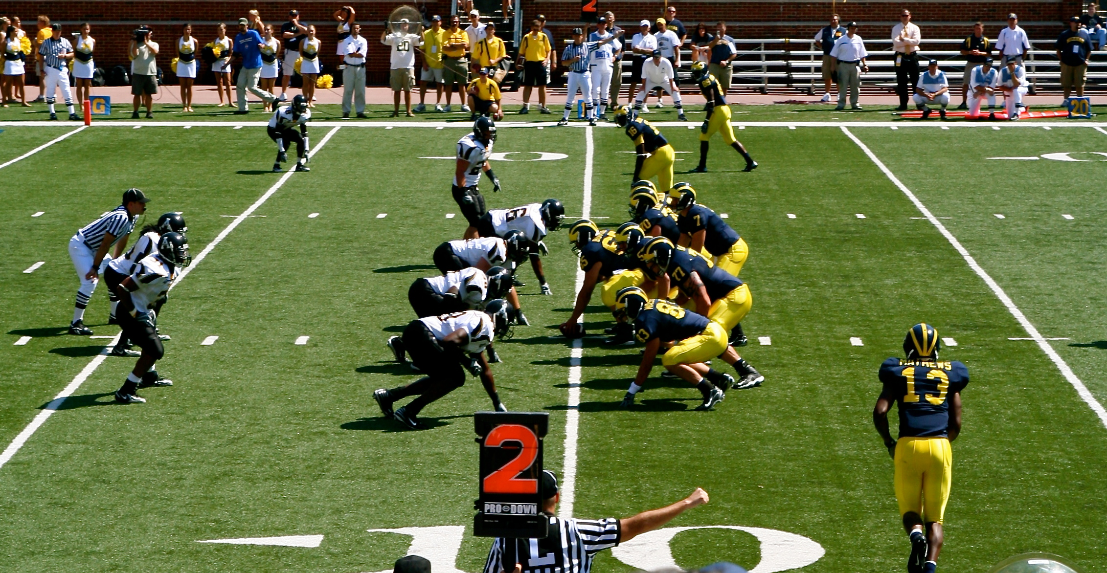 This is an alternate crop of an image already uploaded.